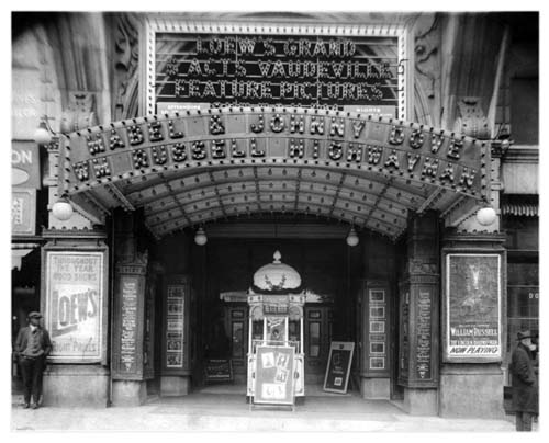 Loew's Grand Theater in Atlanta, Georgia, showing The Lincoln Highwayman (starring William Russell) ca. 1920